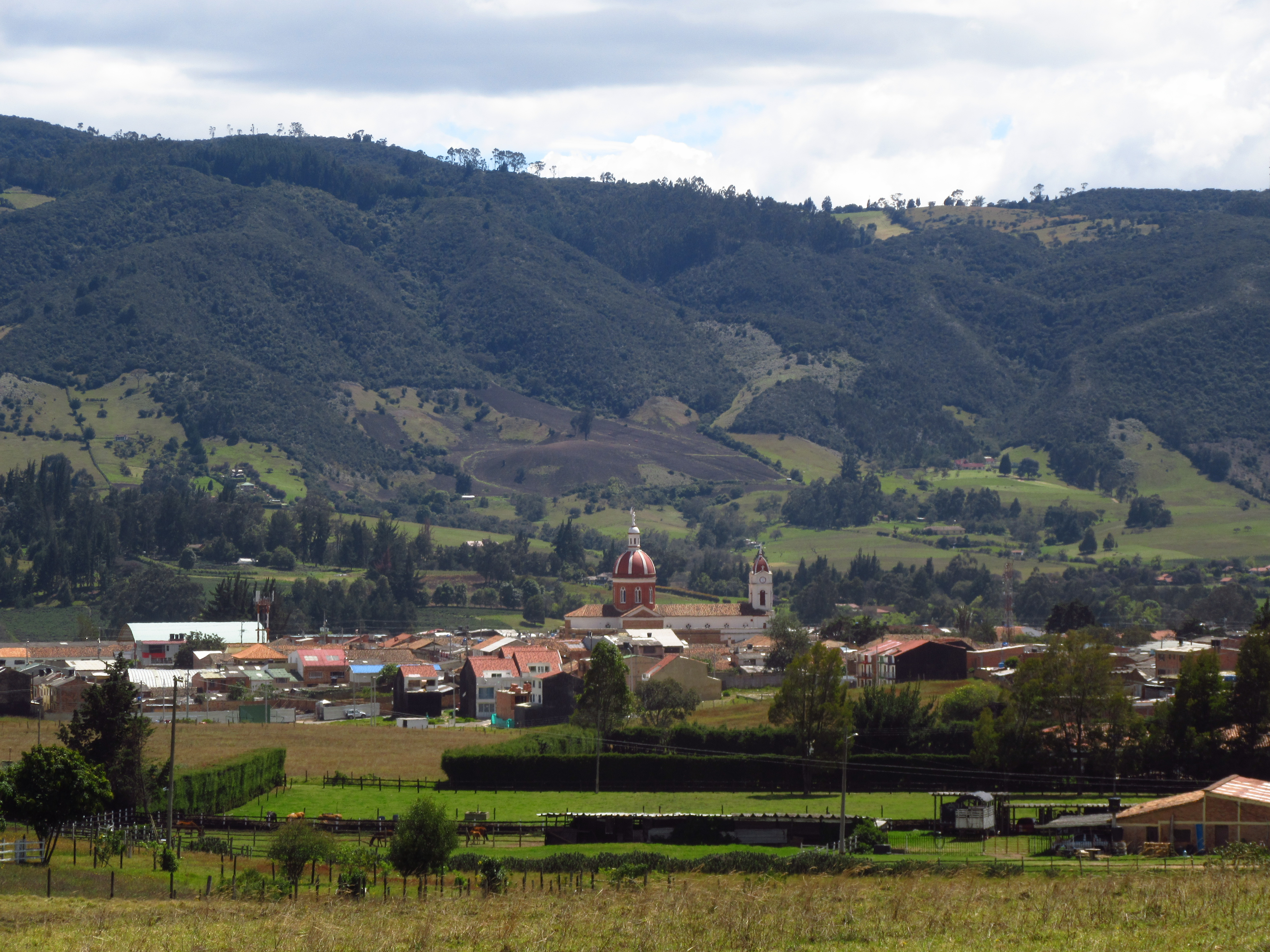 Subachoque